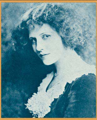 Publicity photo of Ora Carew from Who's Who on the Screen